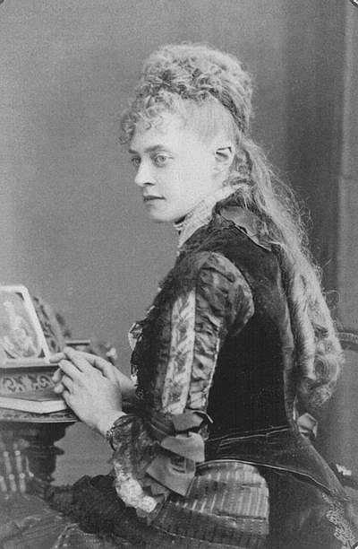 Portrait of Frederica of Hanover (1848-1926)